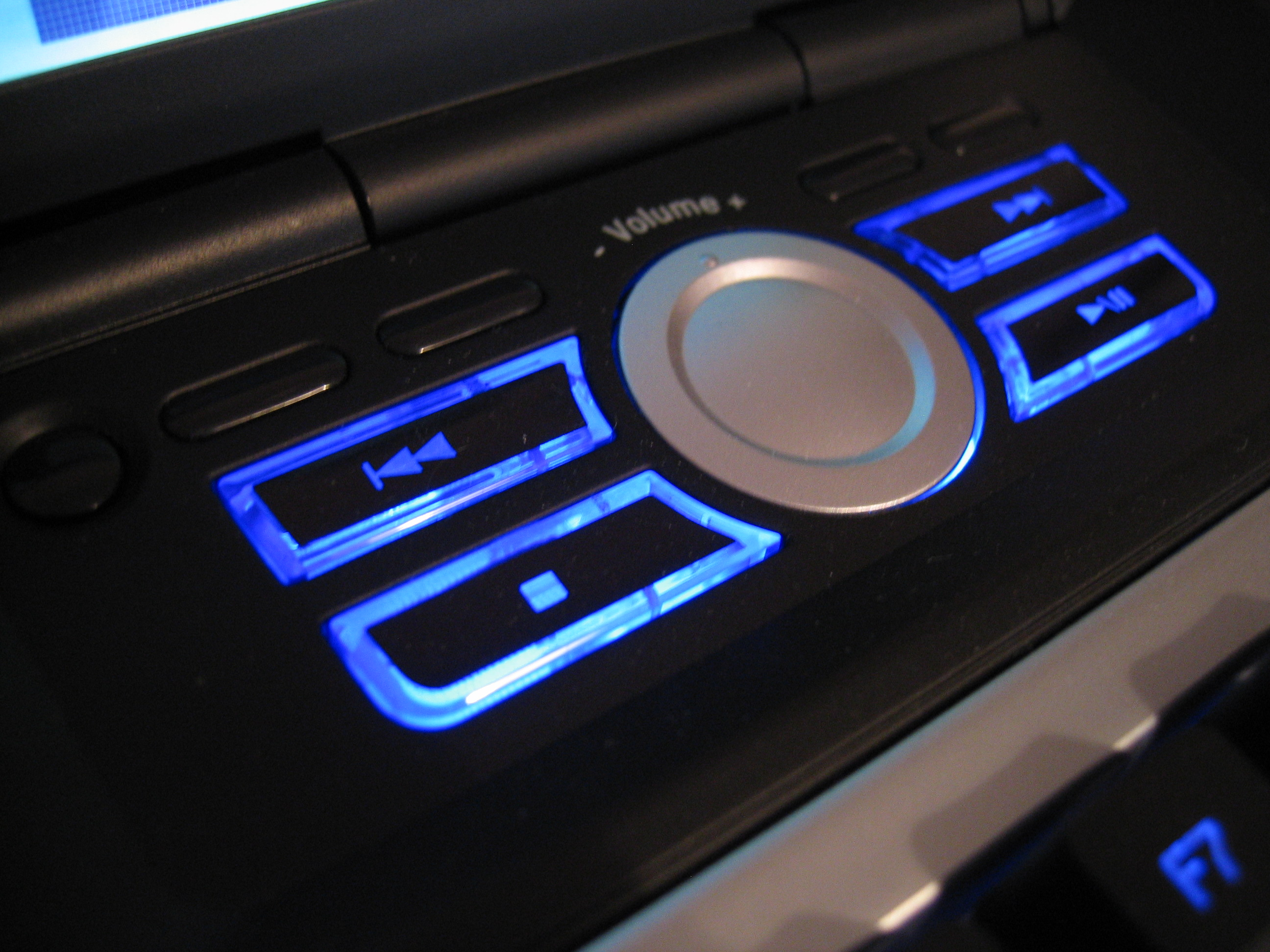 Media keys from the Logitech G15 gamer's keyboard